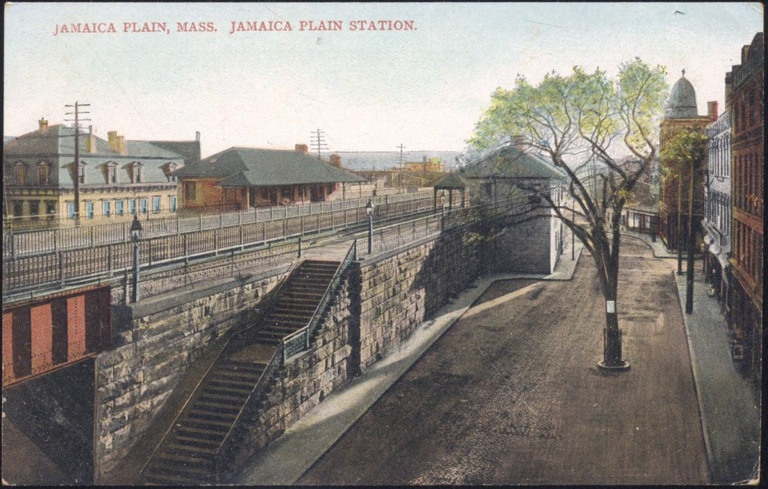 Early divided back postcard of Jamaica Plain station